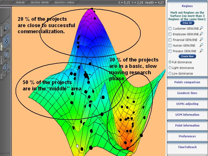 The SWOT-landscape systematically deploys the relationships between overall objective and underlying SWOT-factors and provides an interactive, query-able 3D landscape.